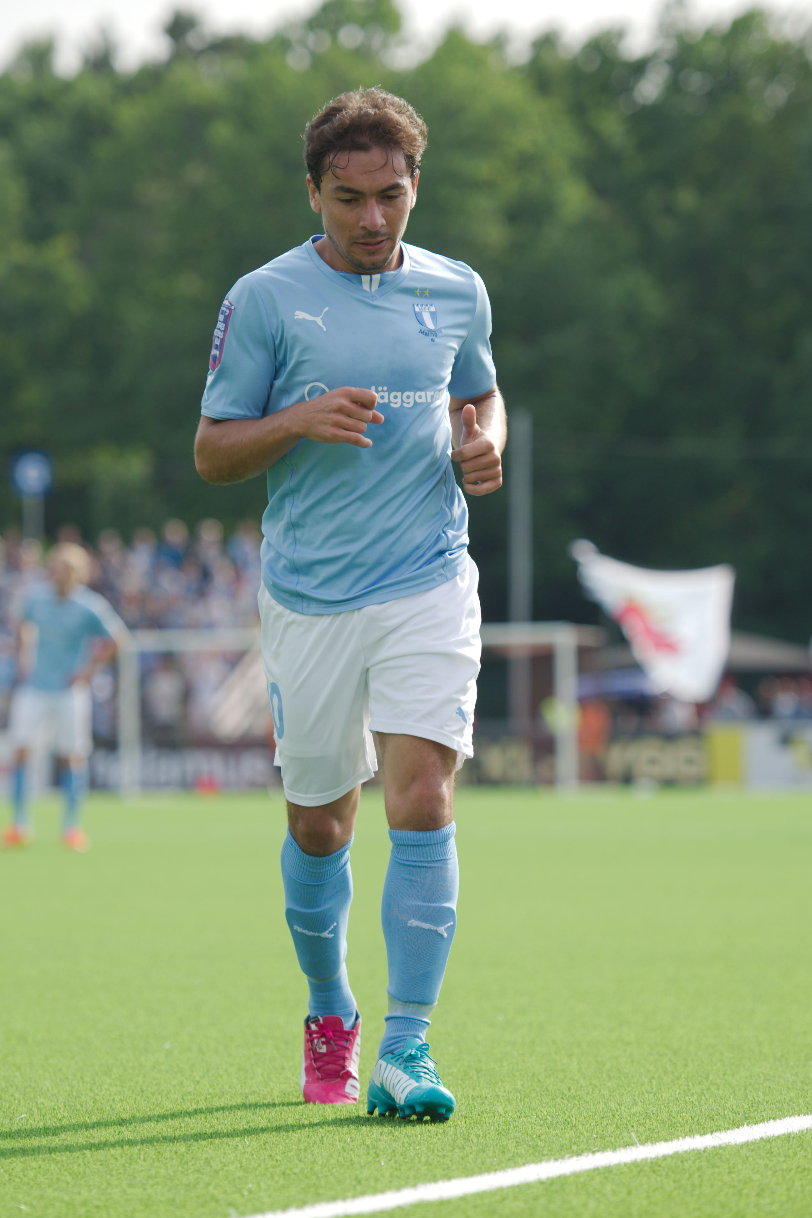 Allsvenskan IF Brommapojkarna-Malmö FF at Grimsta IP converted PNM file